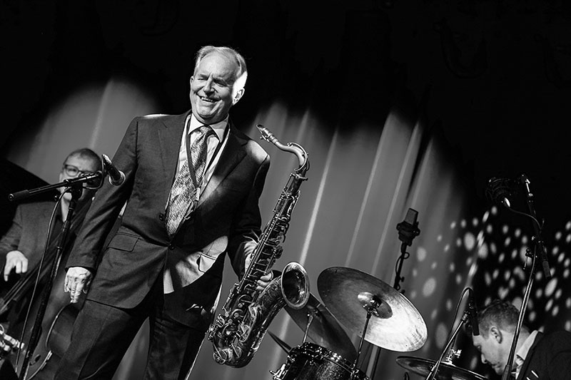 Scott Hamilton in Denmark (Aarhus 2018)